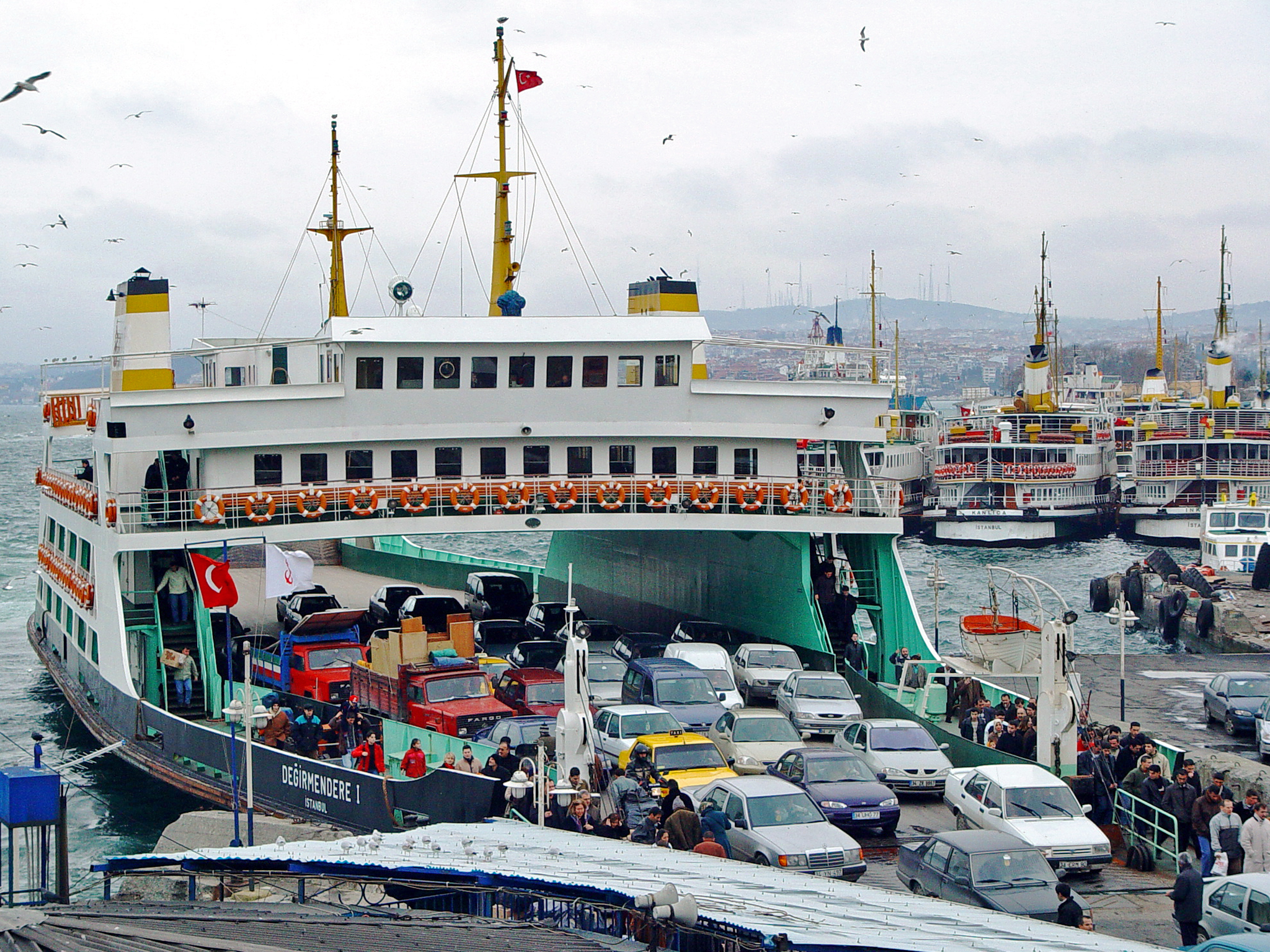 Ferry in Istanbul, near Galata Bridge